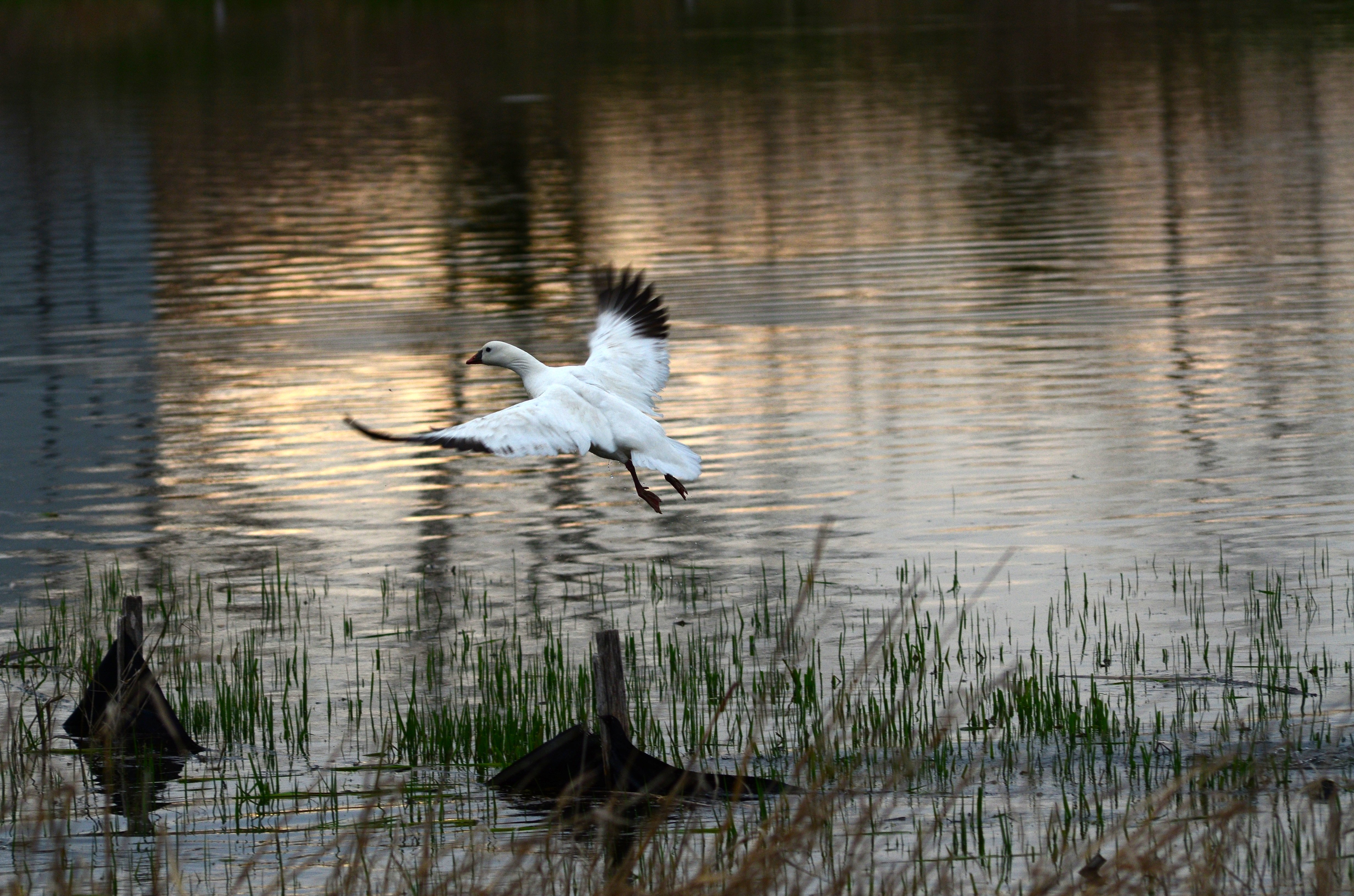 Woodstock, IL